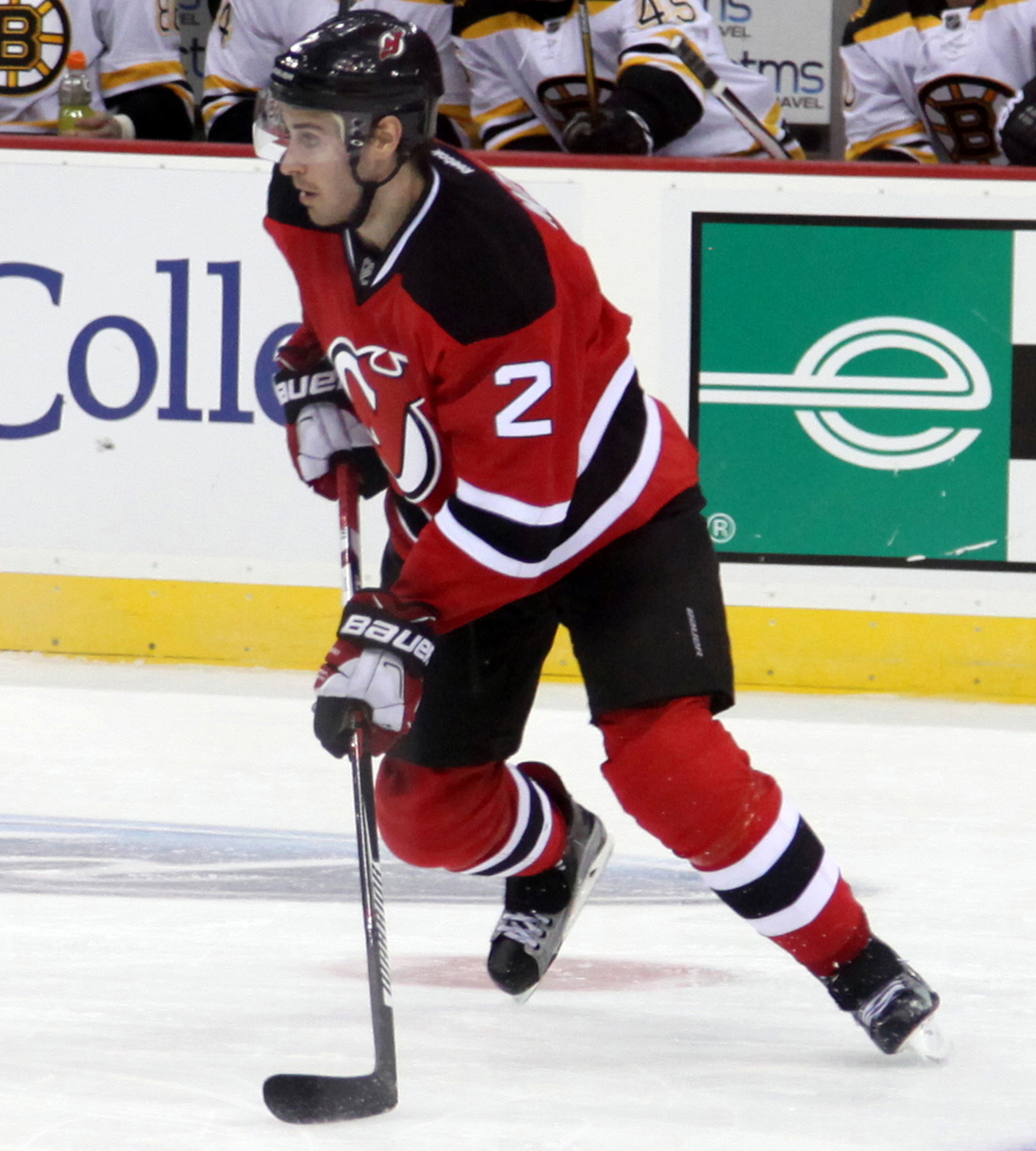 Moore in March 2016